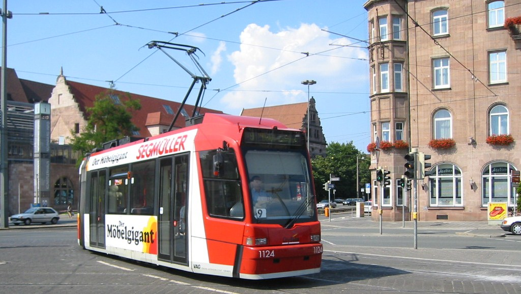 Tranvia en Núremberg